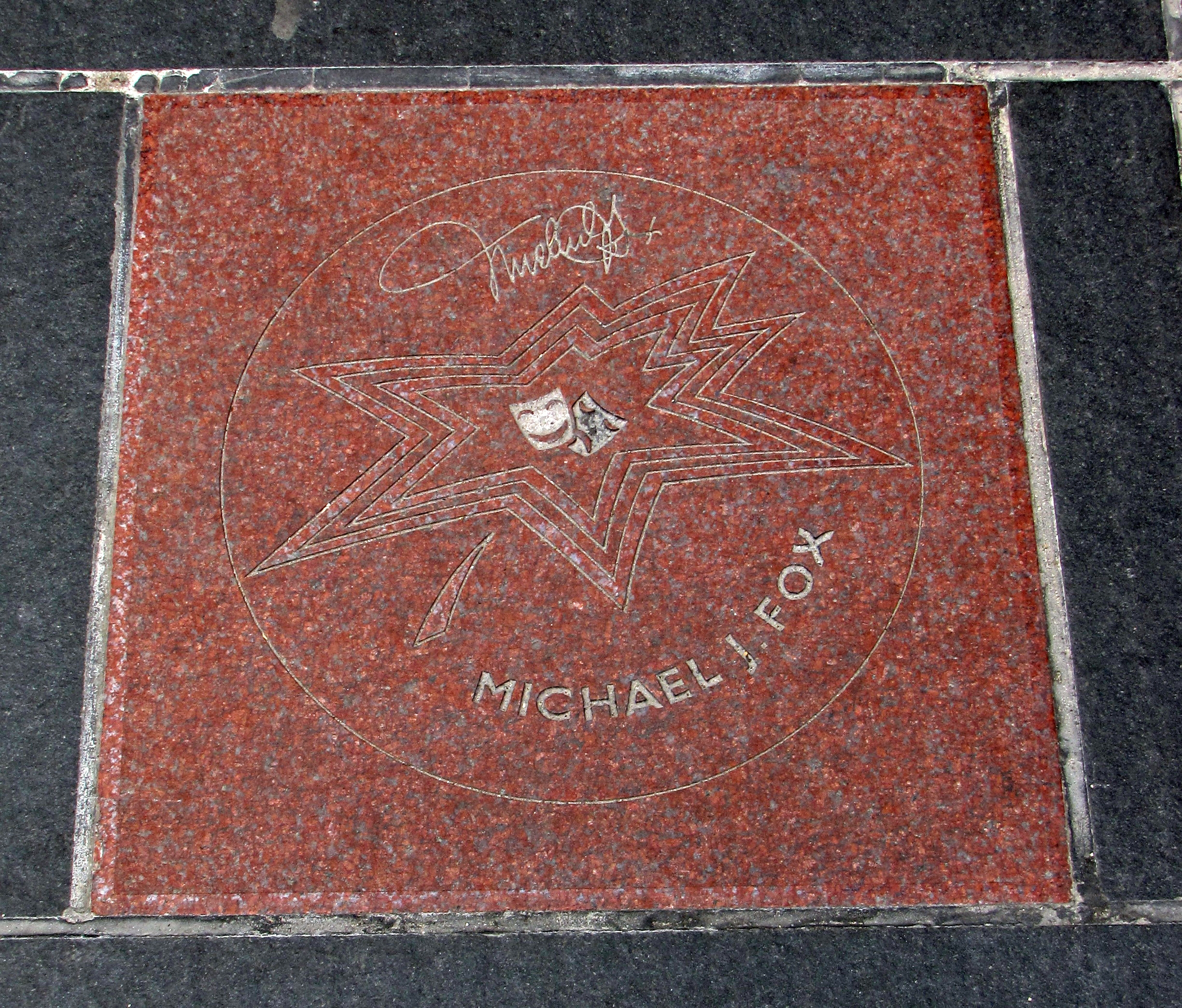 Michael J. Fox's star on Canada's Walk of Fame